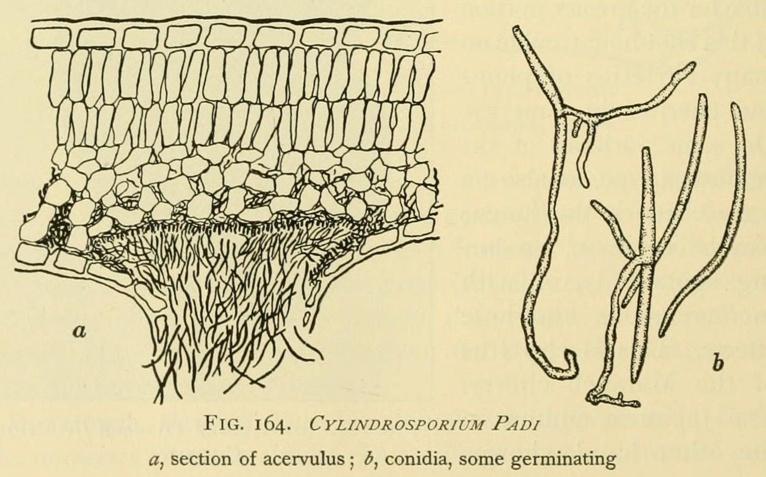 Figure 164 Cylindrosporium padi. a) section of acervulus, b) conidia, some germinating